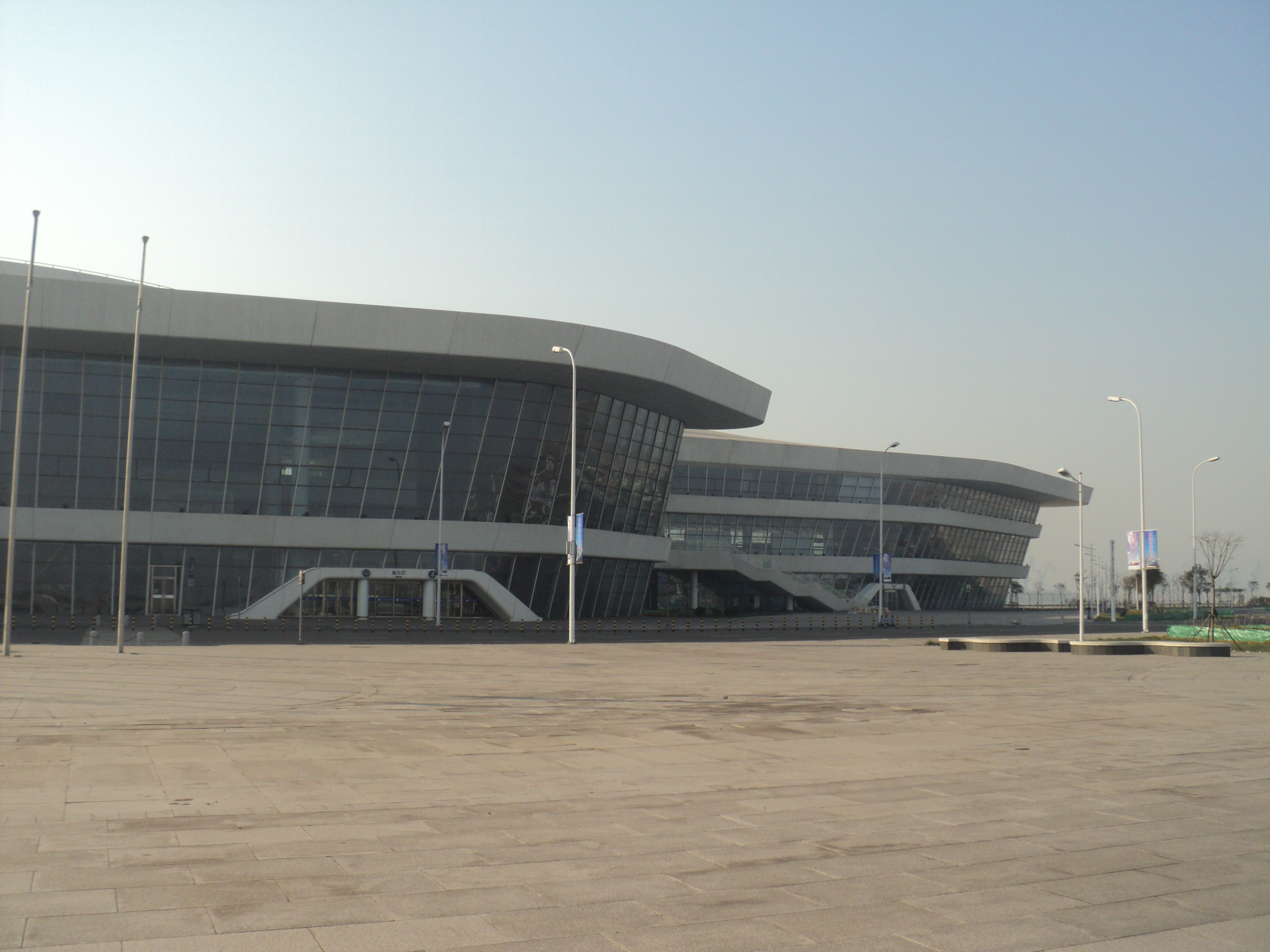 Tianjin Cruiser Homeport, designed to serve as the main homeport for pleasure cruises in the North of China. The terminal building design is supposed to evoke silk flapping in the wind.